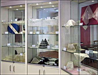 Photograph of the display cabinets of the museum room at the Lace Guild, Stourbridge, England Other information This file was taken specifically for use on Wikipedia.